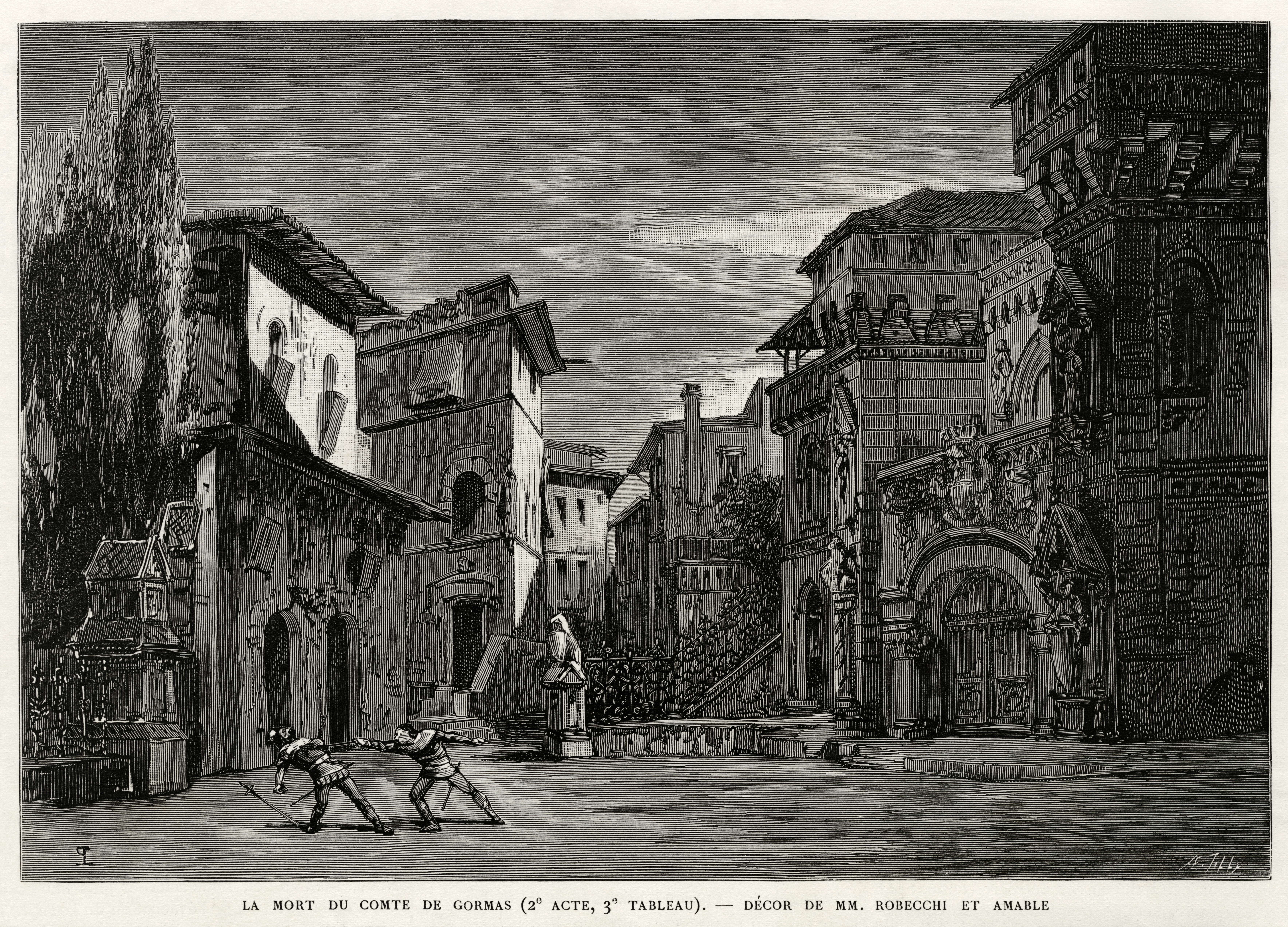 Act 2, Scene 3 of Jules Massenet's Le Cid, as seen in the 5 Décembre 1885 issue of L'Illustration covering its première held on November, 30, 1885.